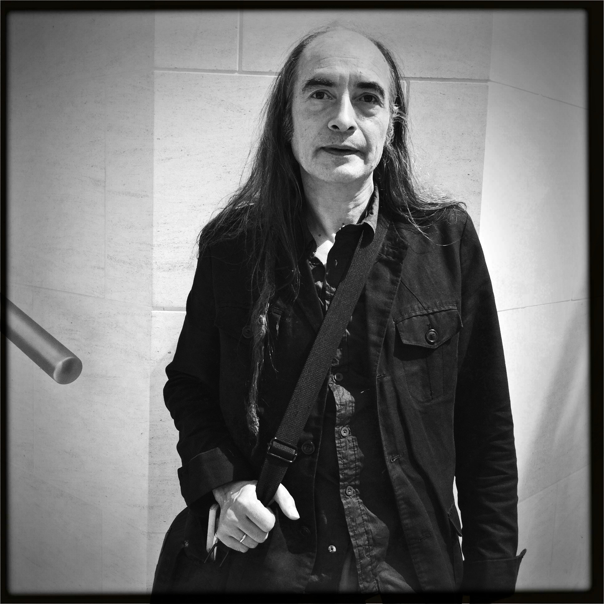 A hipstamatic portrait of Luxembourg artist Steve Kaspar by François Besch